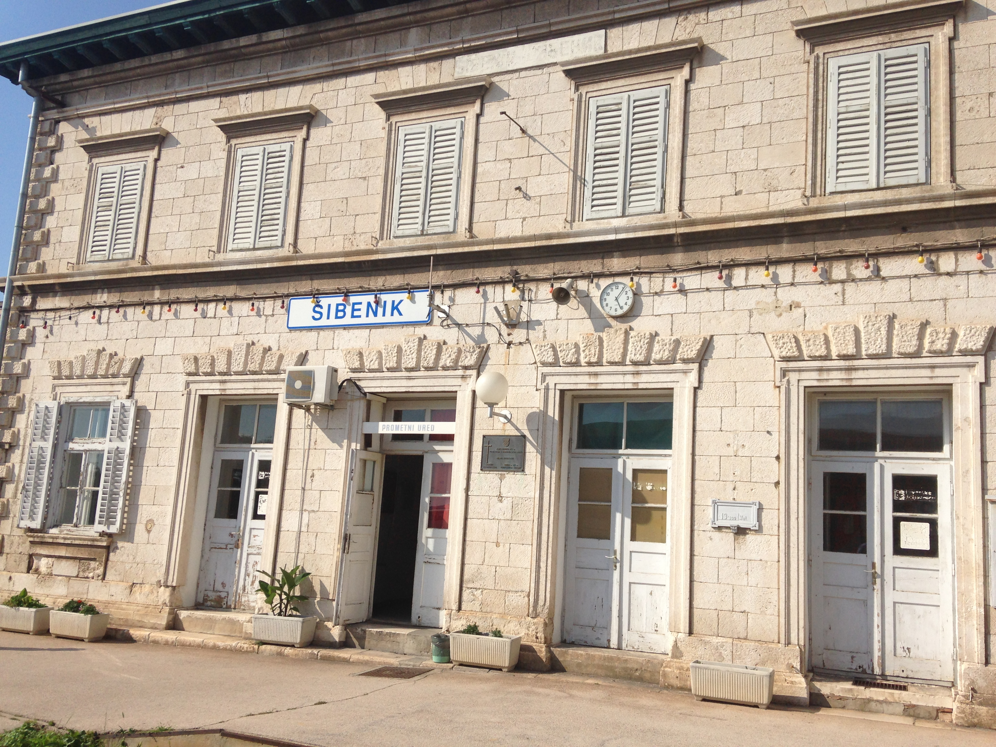 Station Sibenik